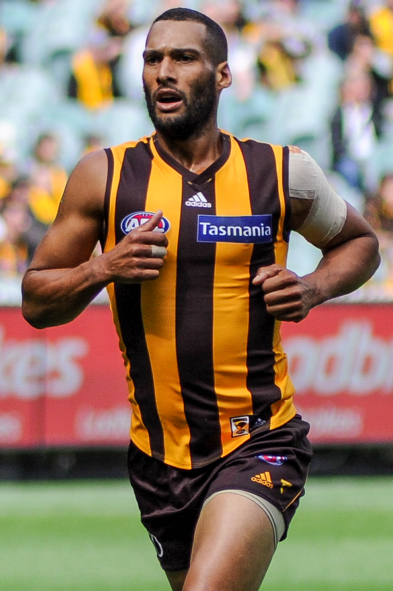 Josh Gibson during the AFL round two match between Hawthorn and Adelaide on 1 April 2017 at the Melbourne Cricket Ground in Melbourne, Victoria.